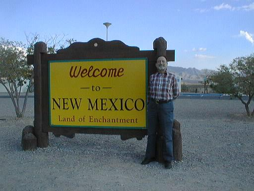 Frank Harary standing at the Texas - New Mexico border on November 2001